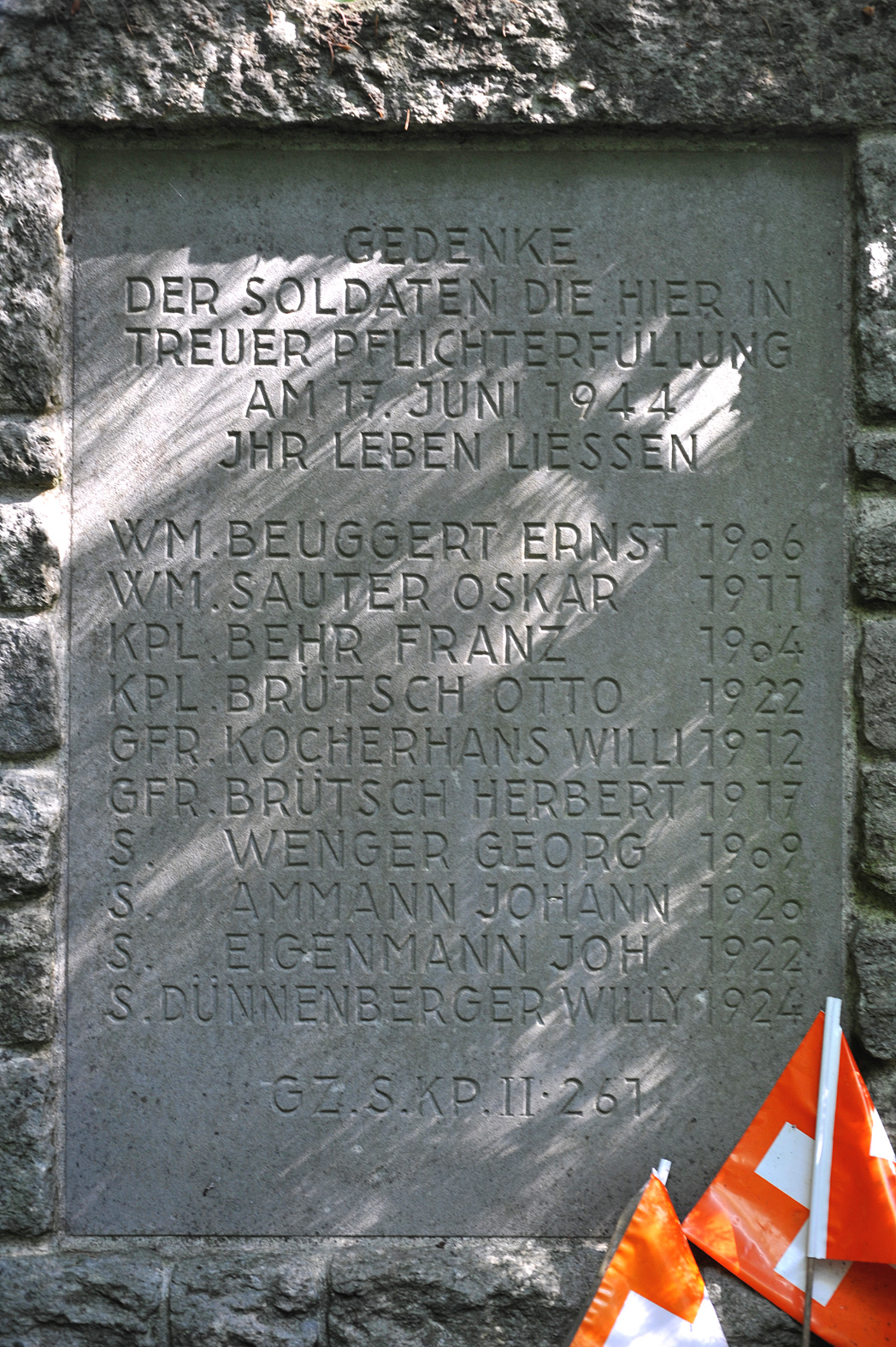 Memorial to remember the mine desaster of 17 June 1944 in the „Tschungel“ (Jungle) near the railway bridge of Hemishofen; Thurgau, Switzerland.